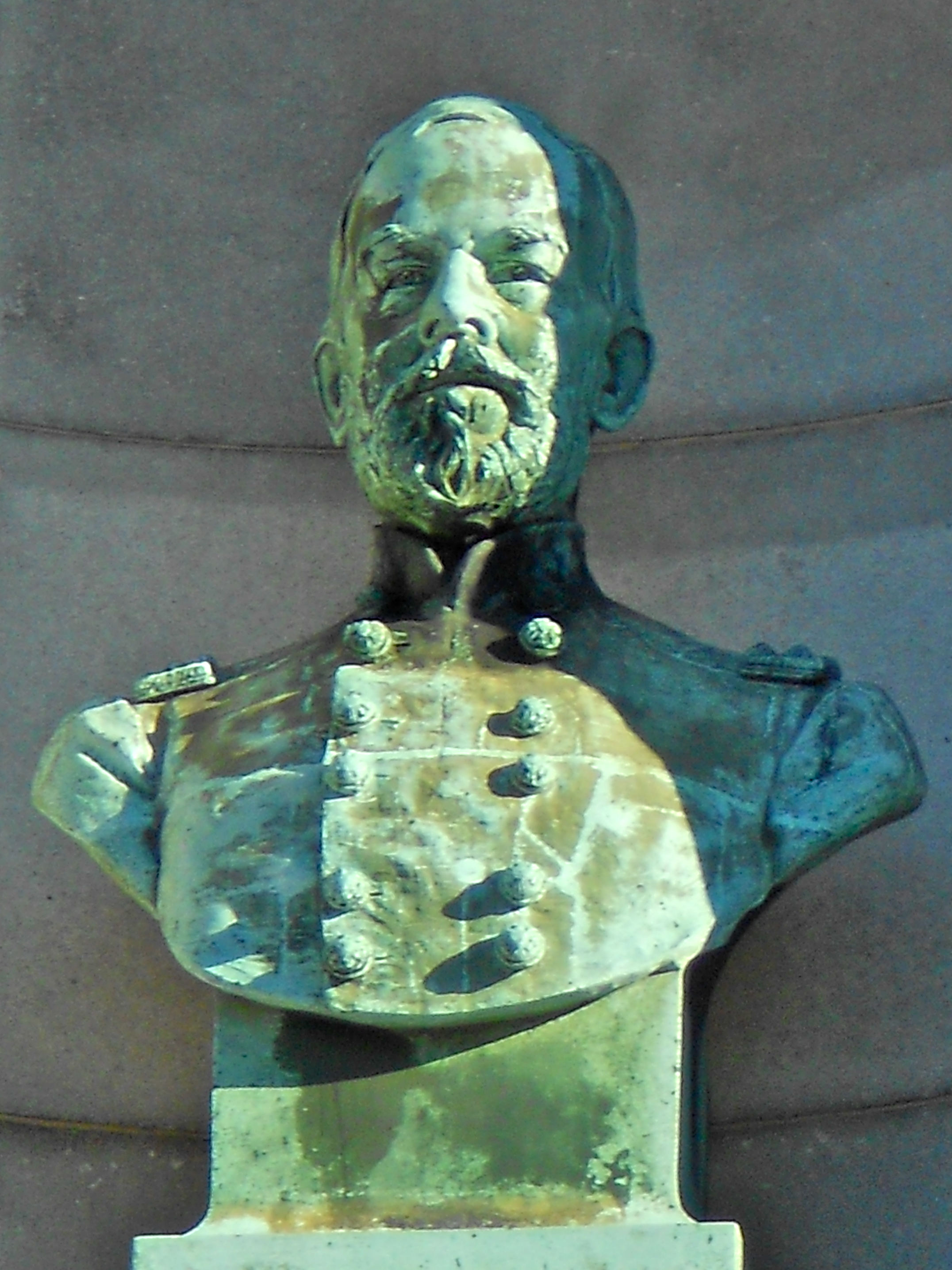 Bust of General James Beaver of Perry County, Pennsylvania, by Katherine M. Cohen. Beaver commanded at regiment of Pennsylvania soldiers in the US Civil War. Bust located on the Smith Memorial Arch just west of the Schuylkill River in Philadelphia, Pennsylvania.